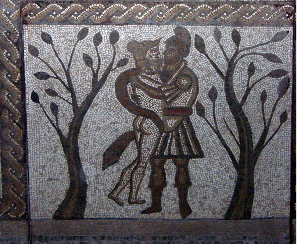 Roman Mosaic (part), found at Low Ham (Somerset)